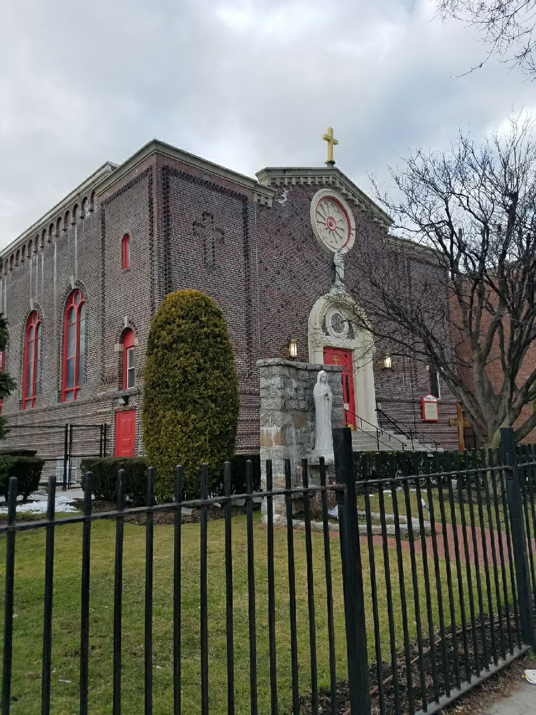 This depicts the exterior of the church, including the foreground and the side.